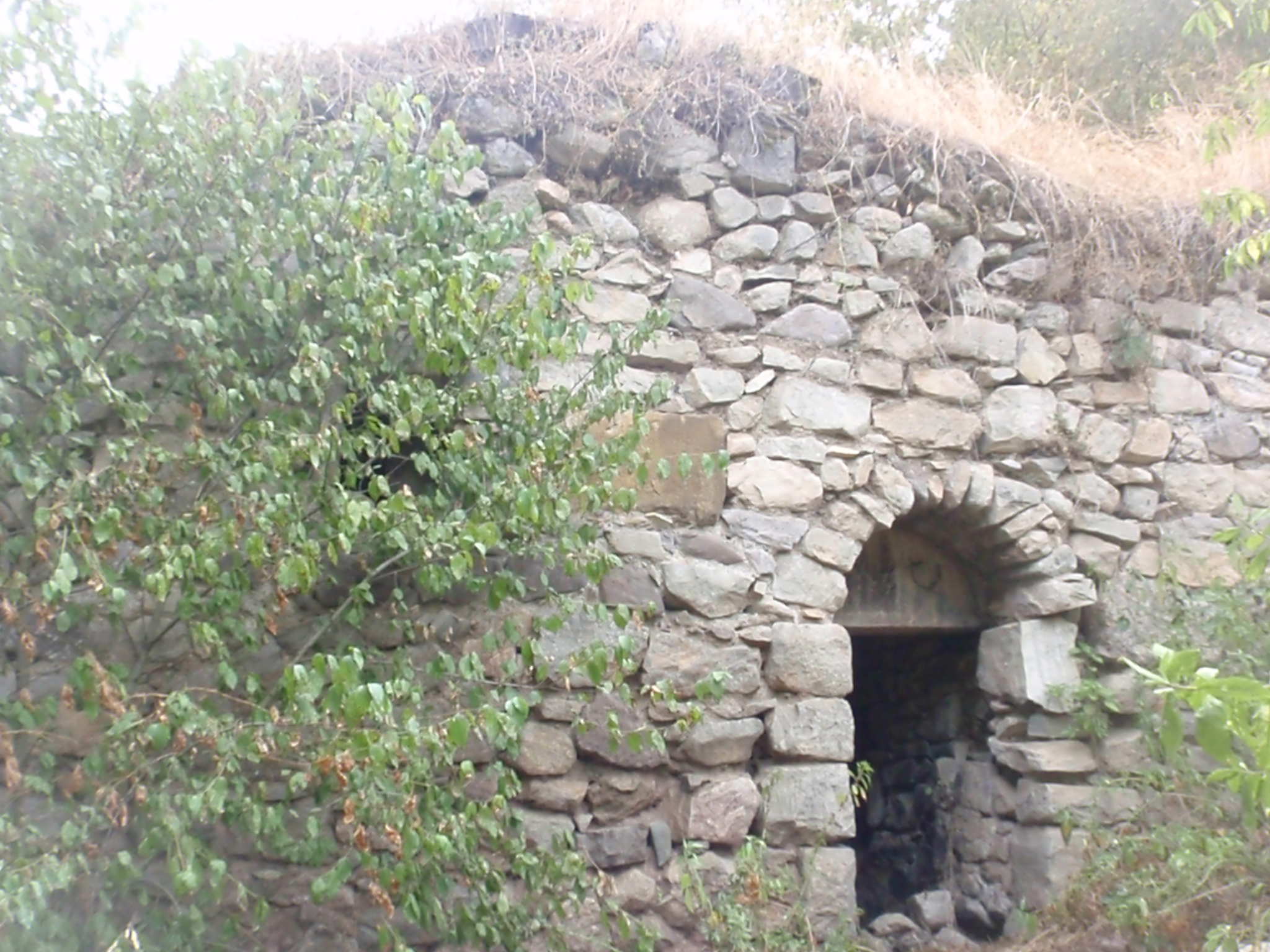 Yeghishe Arakyal Monastery. Location: Tartar district, Azerbaijan; Martakert district, Republic of Mountainous Karabakh (Artsakh).